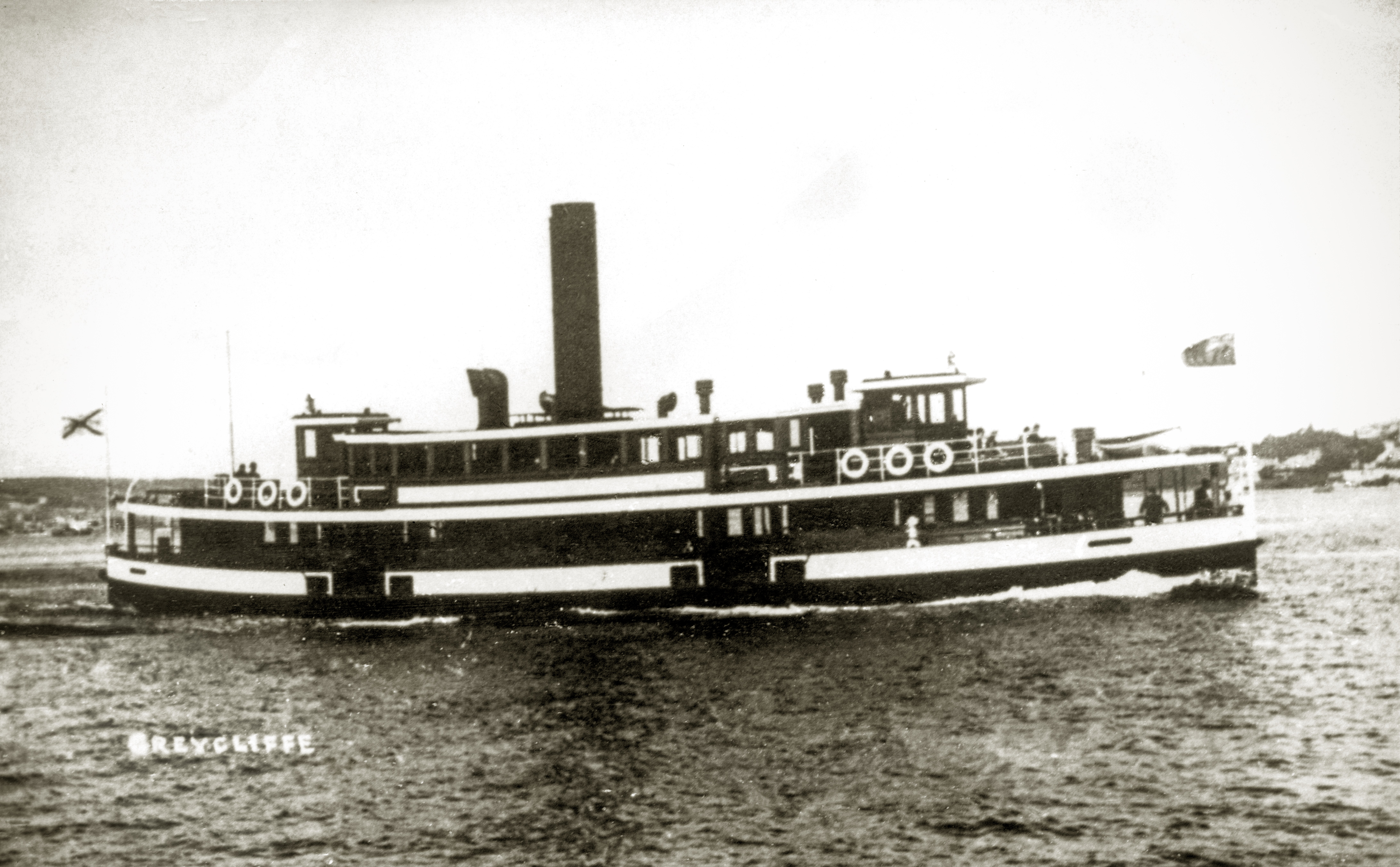 Ferry Greycliffe (built 1911) on Sydney Harbour early 20th century. Greycliffe was sunk with the loss of 40 lives in 1927 when the liner Tahiti sliced through in a collision. Graeme Andrews, Ferry GREYCLIFFE ( 1911-1927). (//), [A-00075690]. City of Sydney Archives, accessed 14 Jul 2020, This link has 135MB TIF file